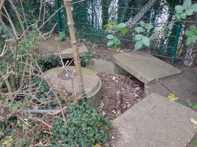 Spigot Mortar Point, Brompton This was designed as a mounting point for a mortar, and would have been used by the Home Guard in the event of a German invasion during World War 2. There are storage lockers for ammunition and a pit where the soldiers would have been protected from enemy fire. It is near the Officers Tennis Club.